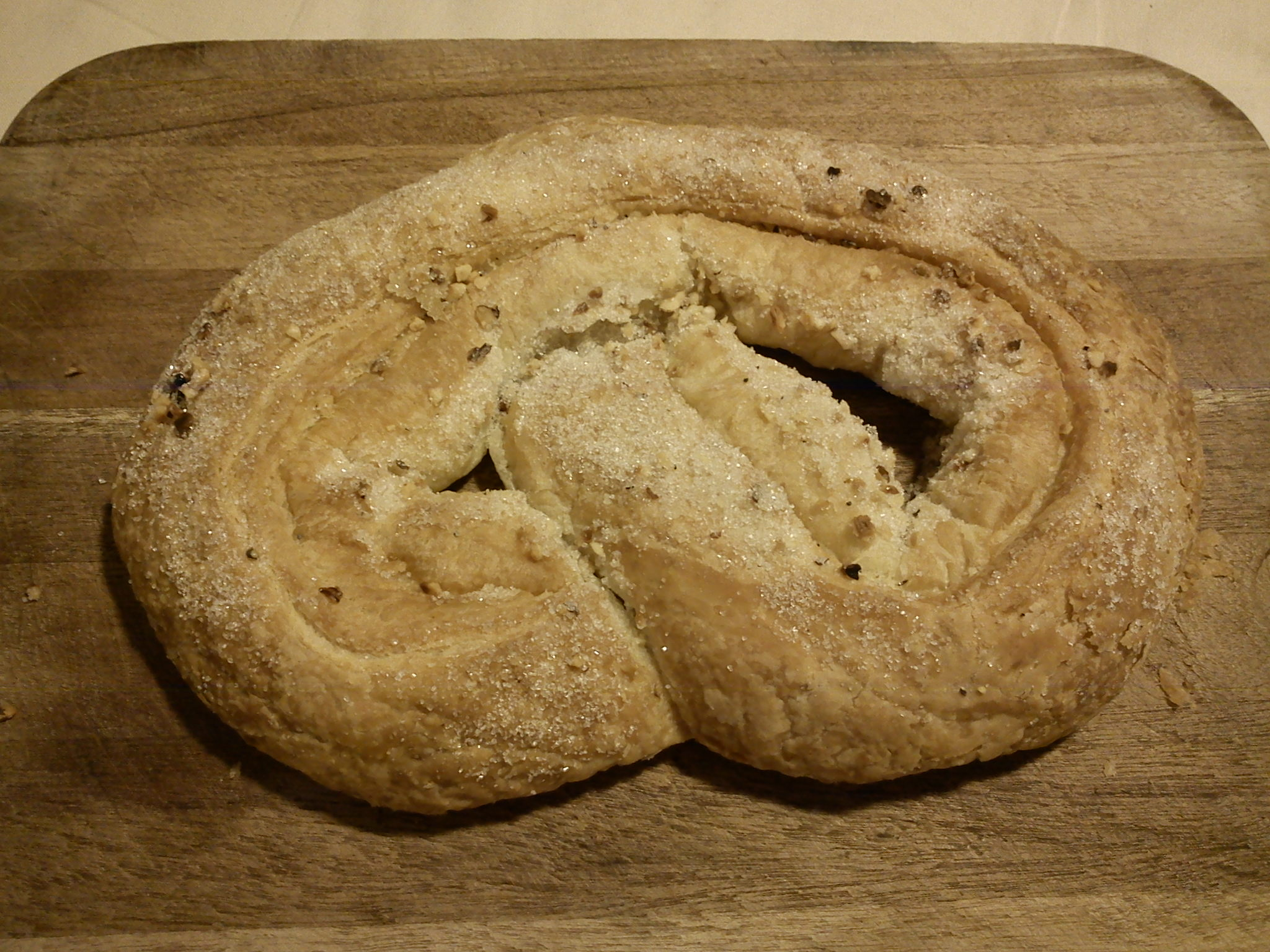 A kringle. This particular pastry is a store bought bake-off from a shop in Denmark. It is about 30 centimetres wide. Not all kringle is made of flaky Danish pastry dough, the name kringle often refers to the shape only.